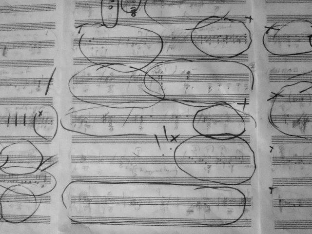 The sketch shows chords and motives for playing modules of improvised compositions.